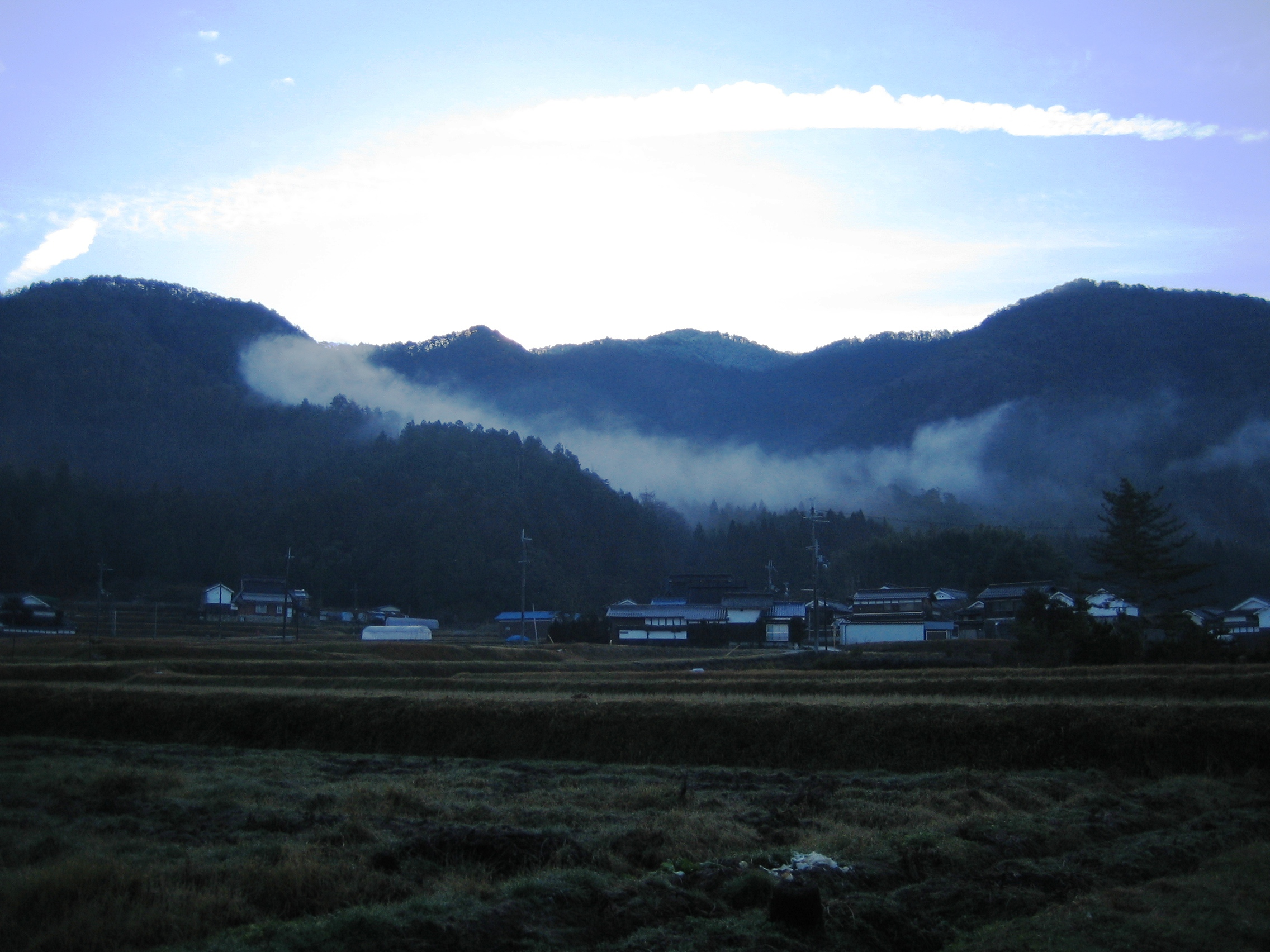 Mount Yajuro seen from the NNW, in Tambasasayama, Hyogo, Japan.